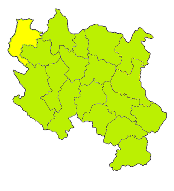 Map of Mačva